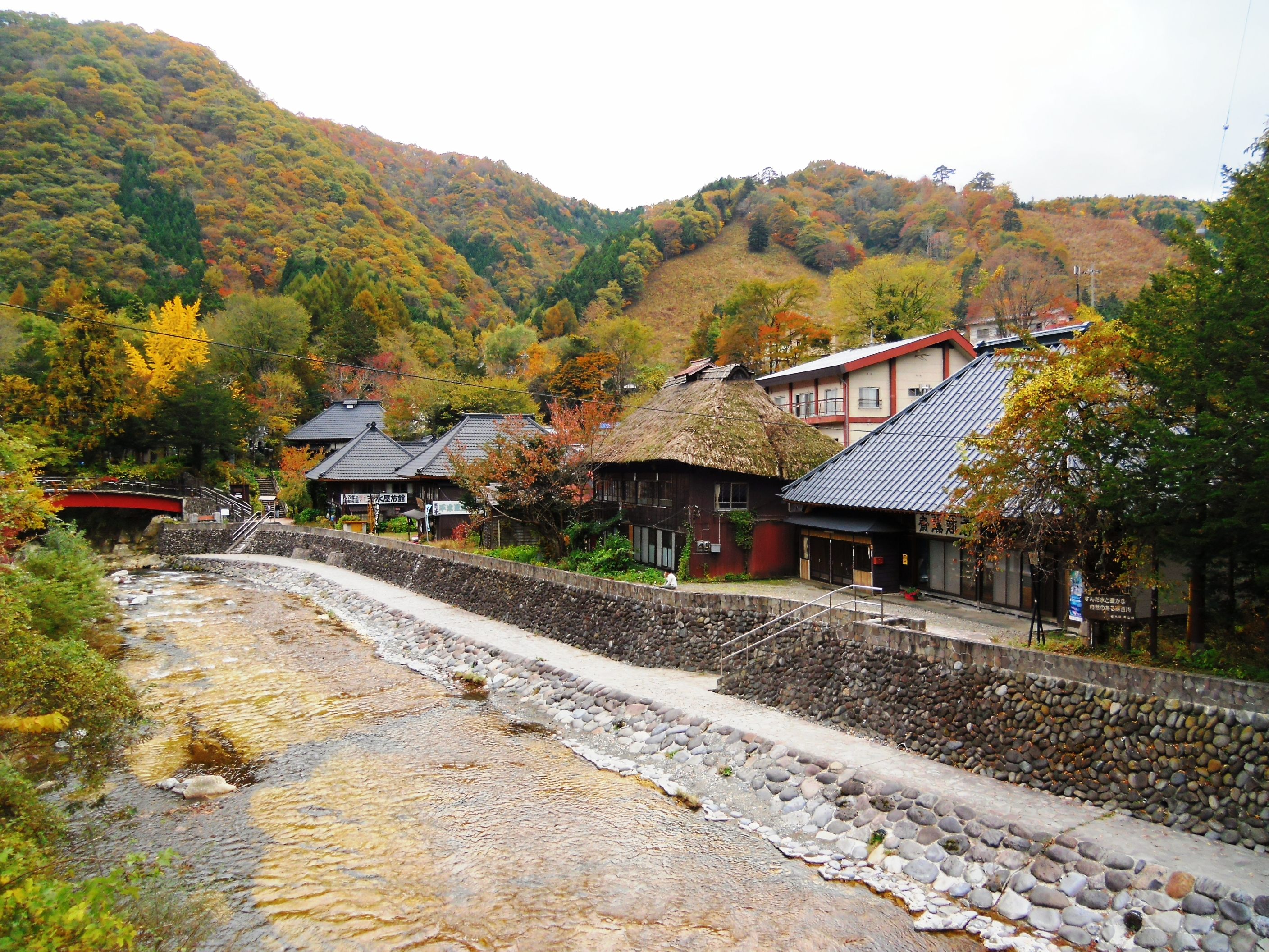 Heike Villege in Yunishigawa Onsen, Tochigi prefecture, Japan.